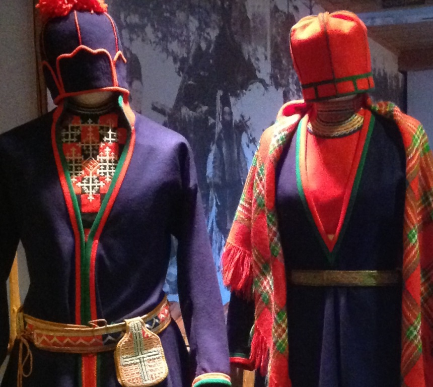 The gapta of the southern sami people, as exhibited at the southern sami museum Saemien sitje, Snåsa. Cropped for use as thumb in template